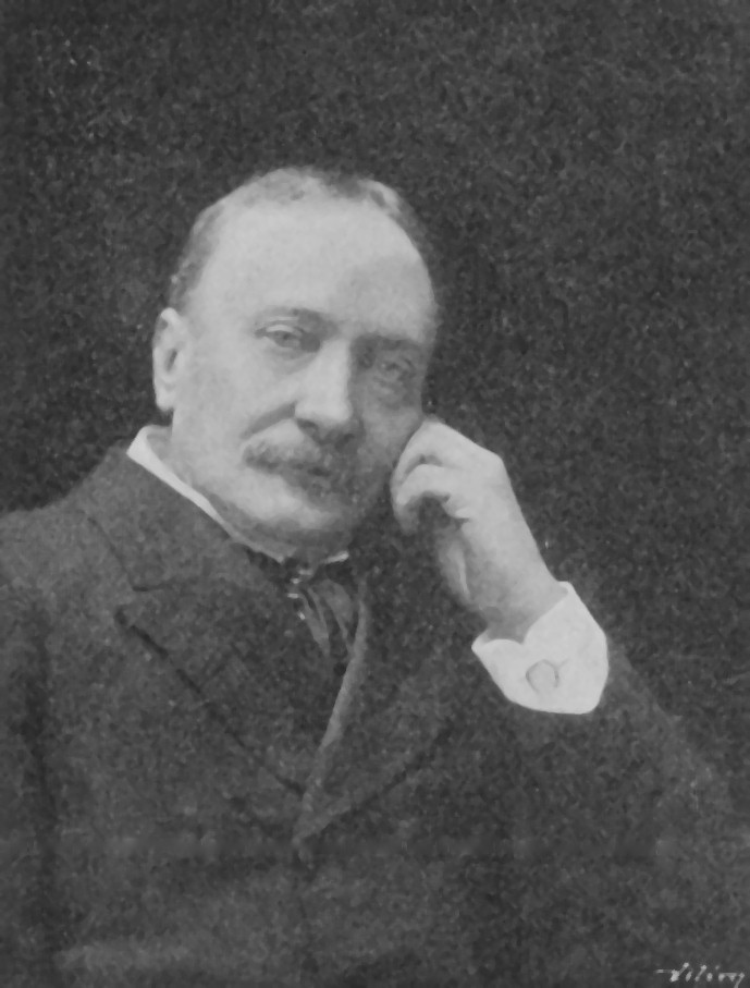 František Lützow (1849–1916), Czech diplomat and historian